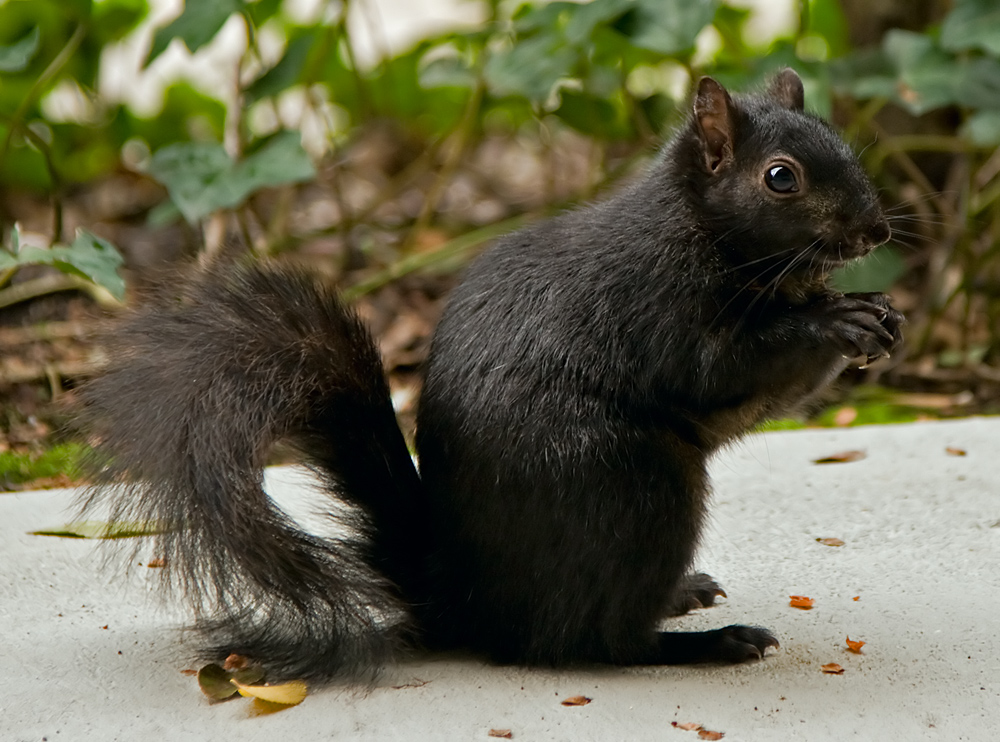 A black squirrel, showing a melanistic phenomenon with the brown phenotype (brown-black), seen in Santa Clara, CA.